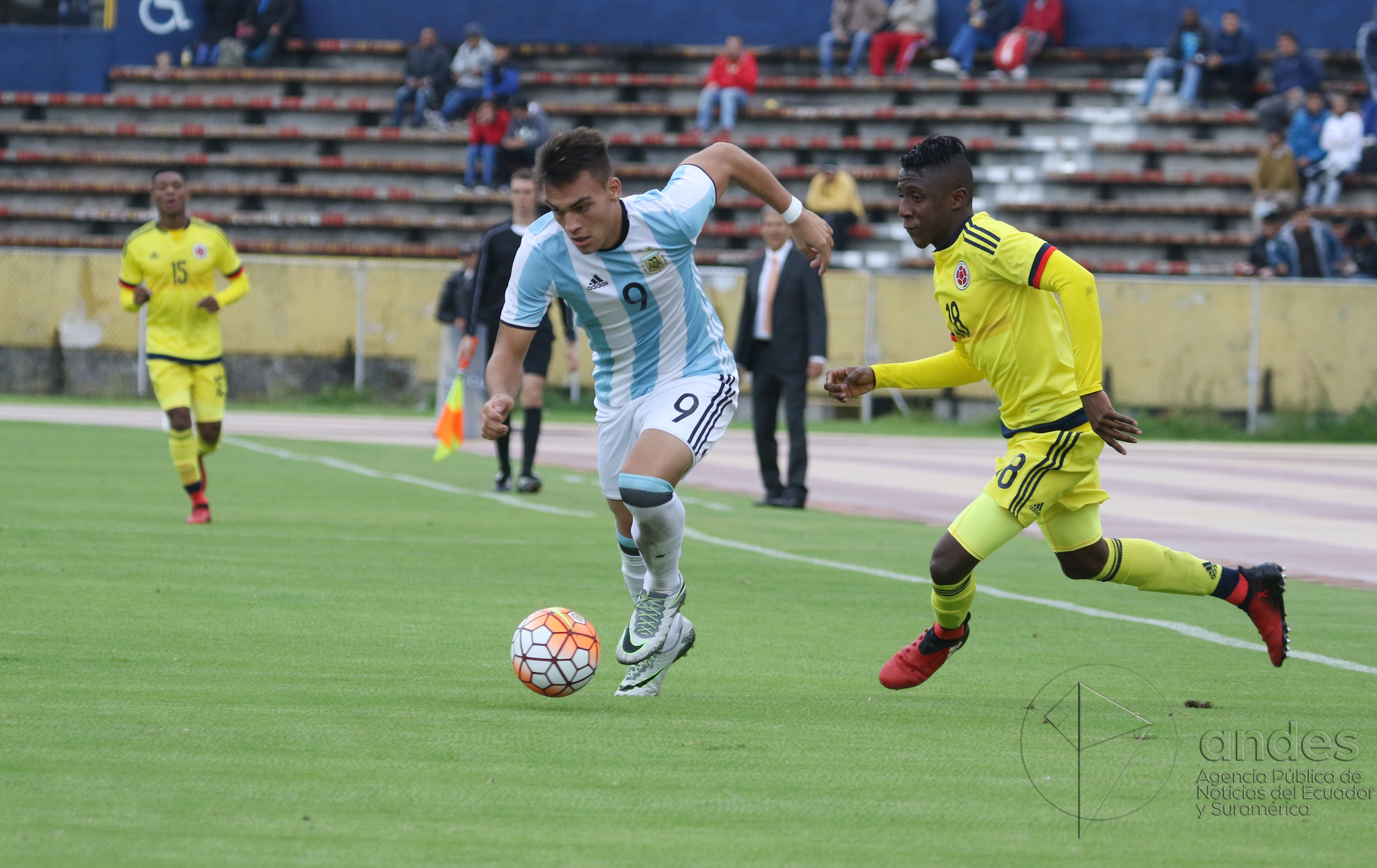 Quito, 2 de febrero del 2017 (Andes).- La escuadra argentina necesitaba ante Colombia un buen resultado para sacudirse del 0-3 recibido en la primera fecha frente a Uruguay y lo consiguió con goles en el minuto uno y el 92, con los que venció 2-1 a Colombia en la segunda fecha del Sudamericano Sub 20 Ecuador 2017. ANDES/Micaela Ayala V. This file comes from the Flickr stream of the Public News Agency of Ecuador and South America and is copyrighted. This file is verified as being licenced under an appropriate Creative Commons licence. In short: you are free to modify the file as long as you attribute Photographer name/Andes and distribute it under the same licence. This tag does not indicate the copyright status of the attached work. A normal copyright tag is still required. See Commons:Licensing for more information. English | español | +/−